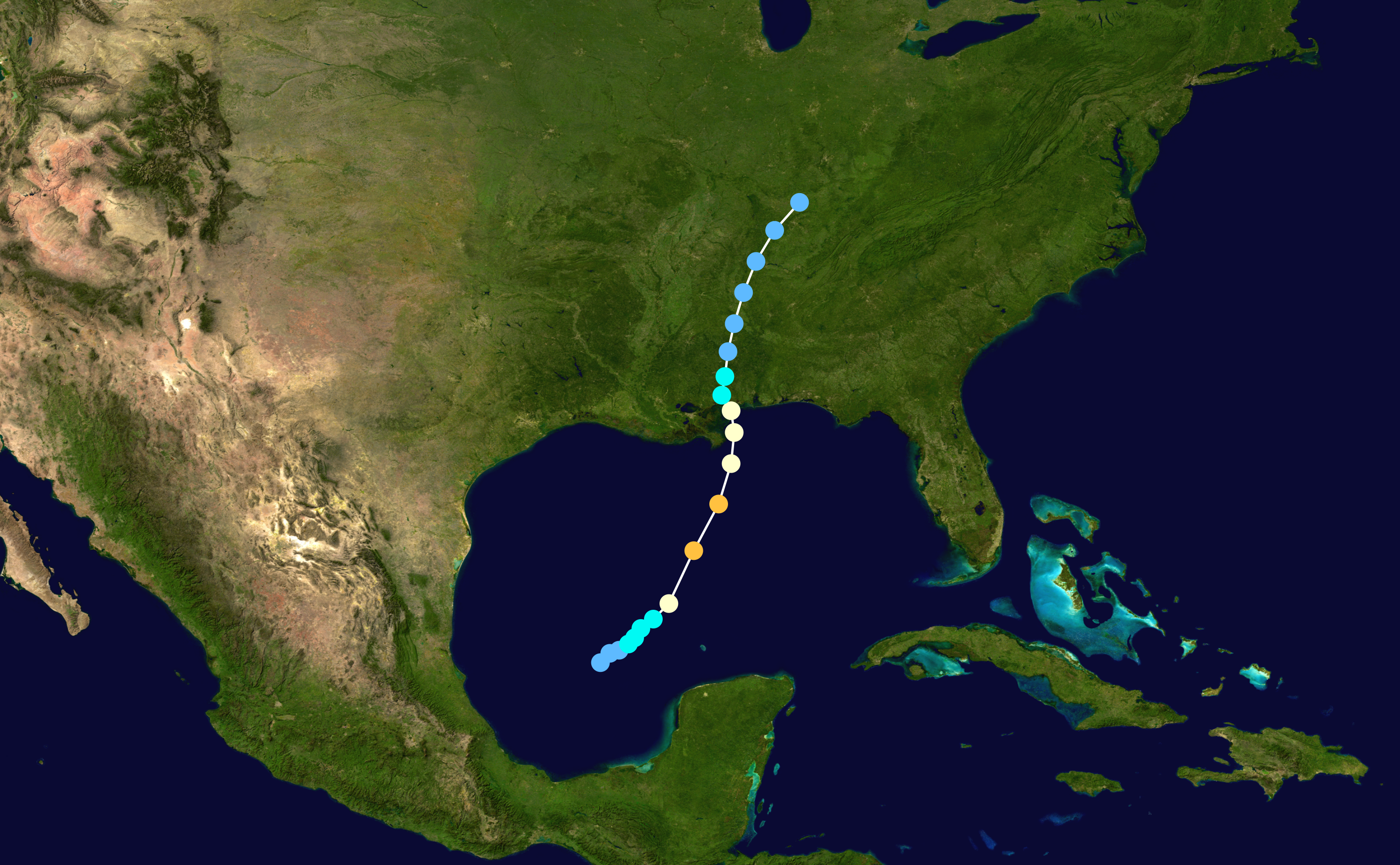 Hurricane Ethel (1960) track. Uses the color scheme from the Saffir-Simpson Hurricane Scale.